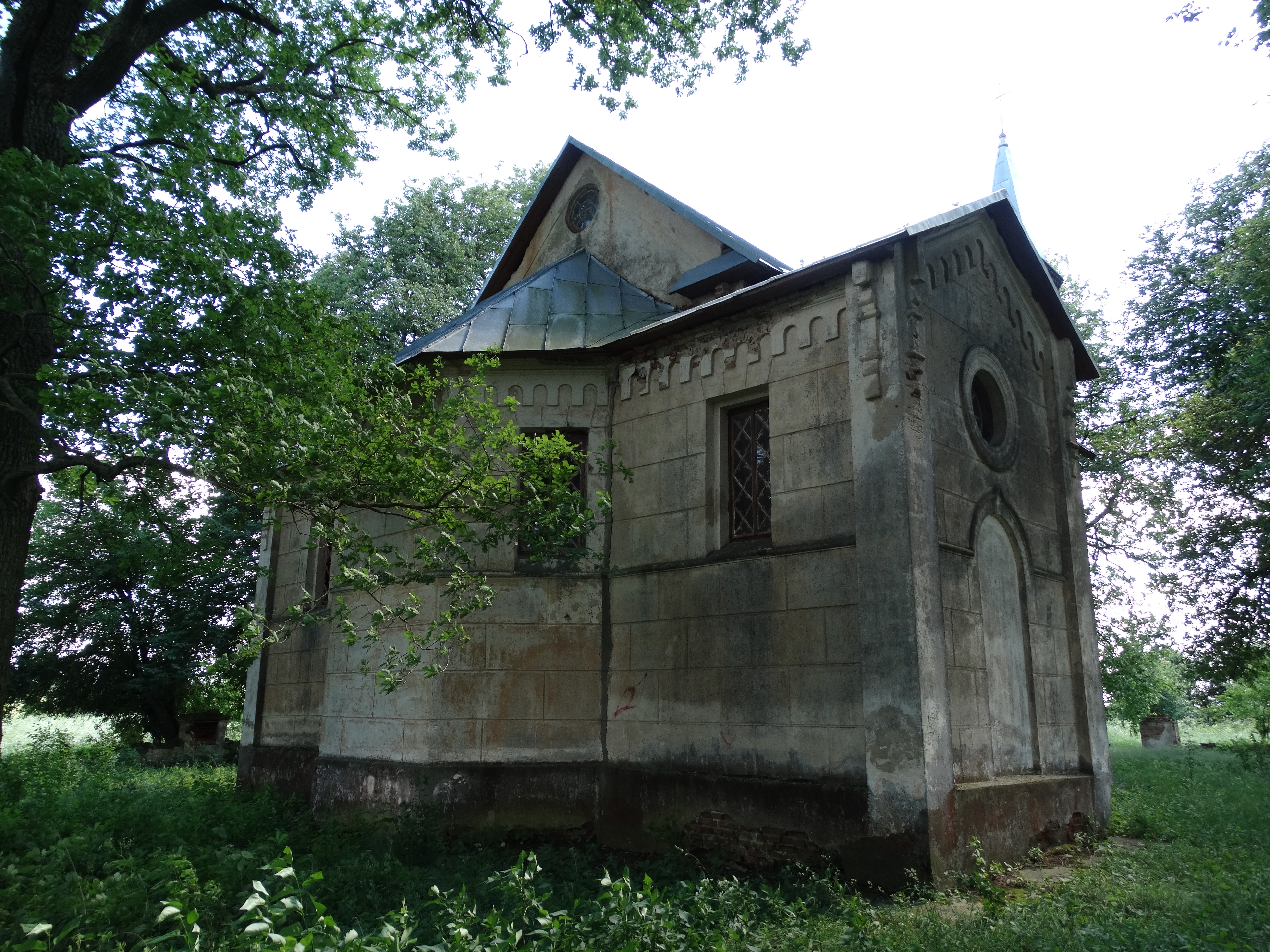 Chapel near Bernotiškiai, Ukmergė district, Lithuania